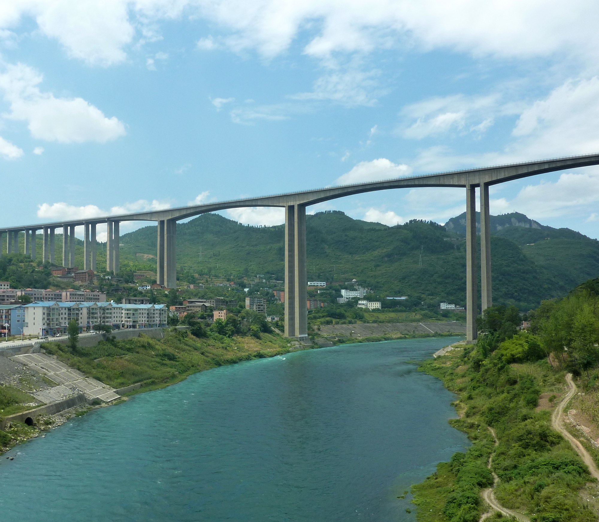 The Wujiang River Bridge in Guizhou province, China